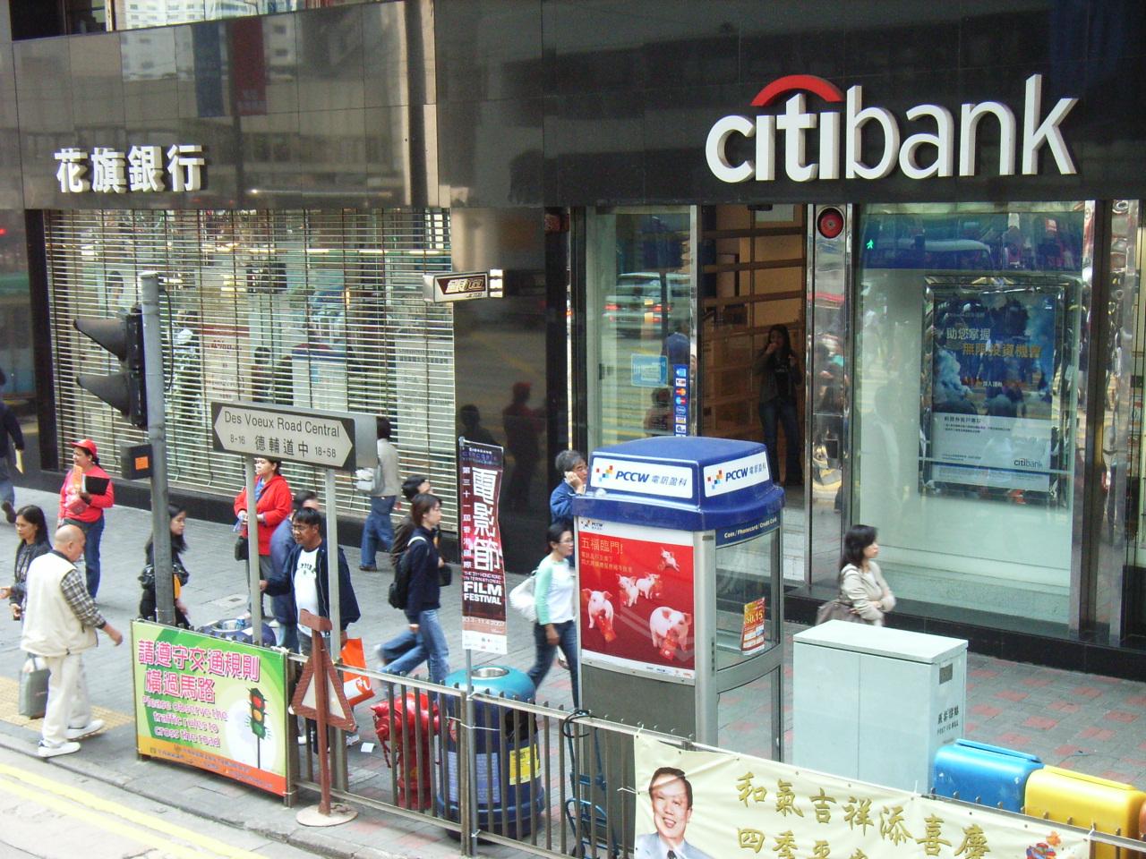 花旗银行, Citibank, Wheelock House branch, Pedder Street, Central, Hong Kong. Photo by me.